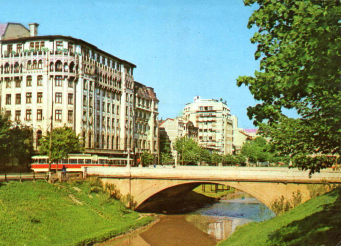 View of the center of Bucharest, drawing by me 1987 since a picture taken 1967